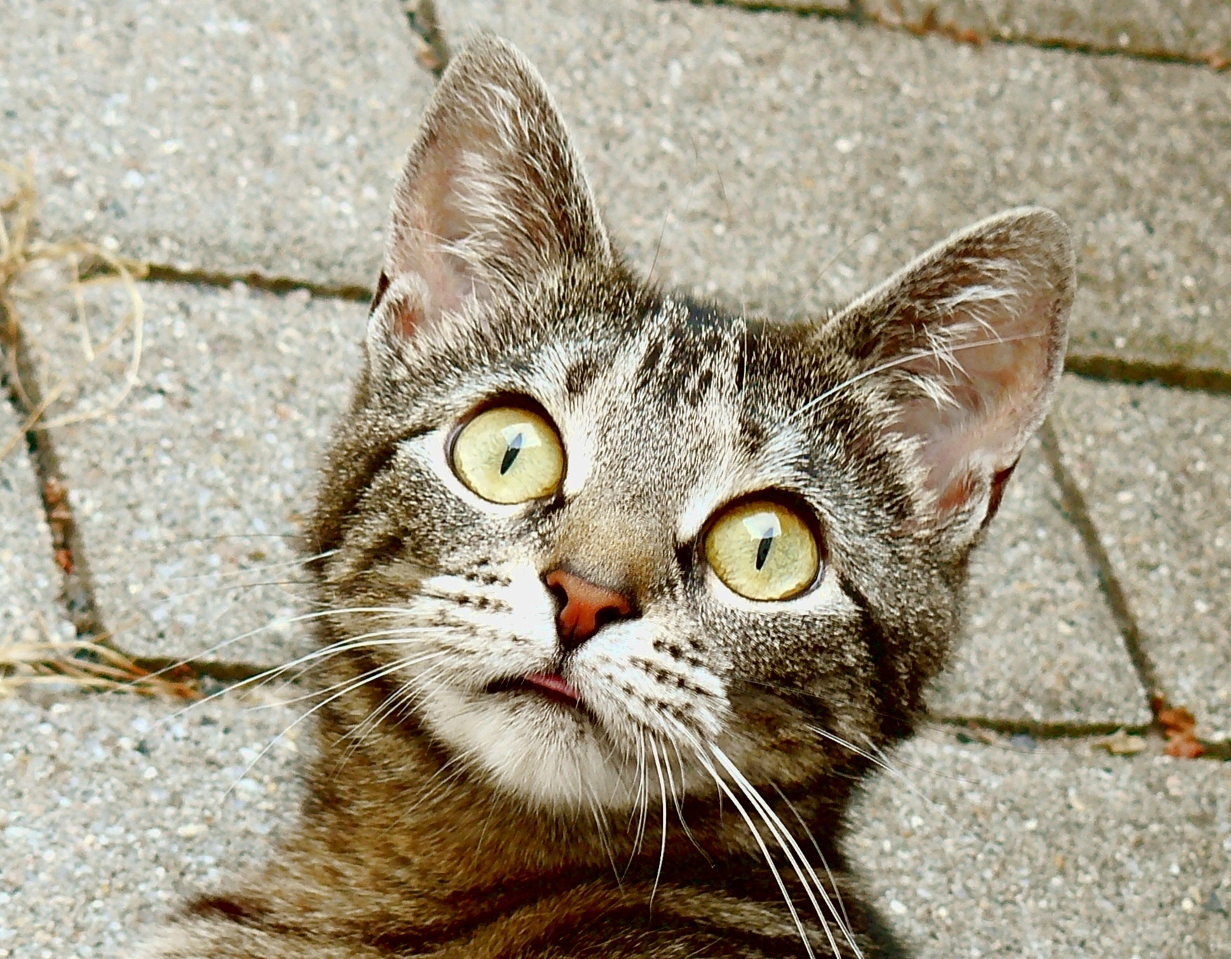 Young domestic cat in a backyard in Leipzig, surprised by the sound of an opening window